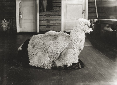 In some places in Finland, at kekri a relative of the yule goat, the "lamb goat" occurred, the awe and horror of the children.